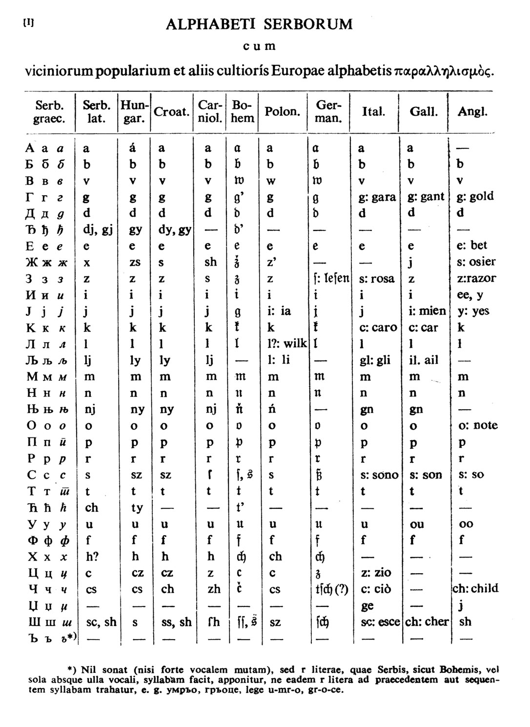 Serbian Cyrillic (annotated as “Serb. graec.”) and Serbian Latin c. 19th century with Comparative orthography of European languages. Note “Serb. lat.” and “Croat.” columns contain several now obsolete Latin digraphs.